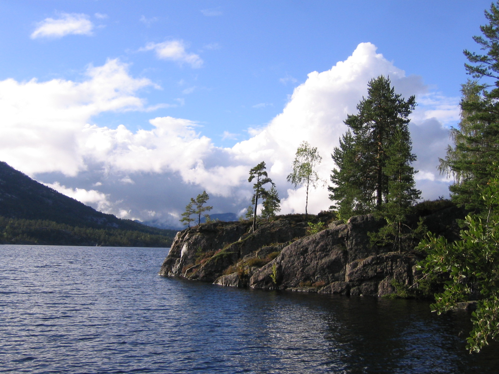 Telemarksvegen, Norway